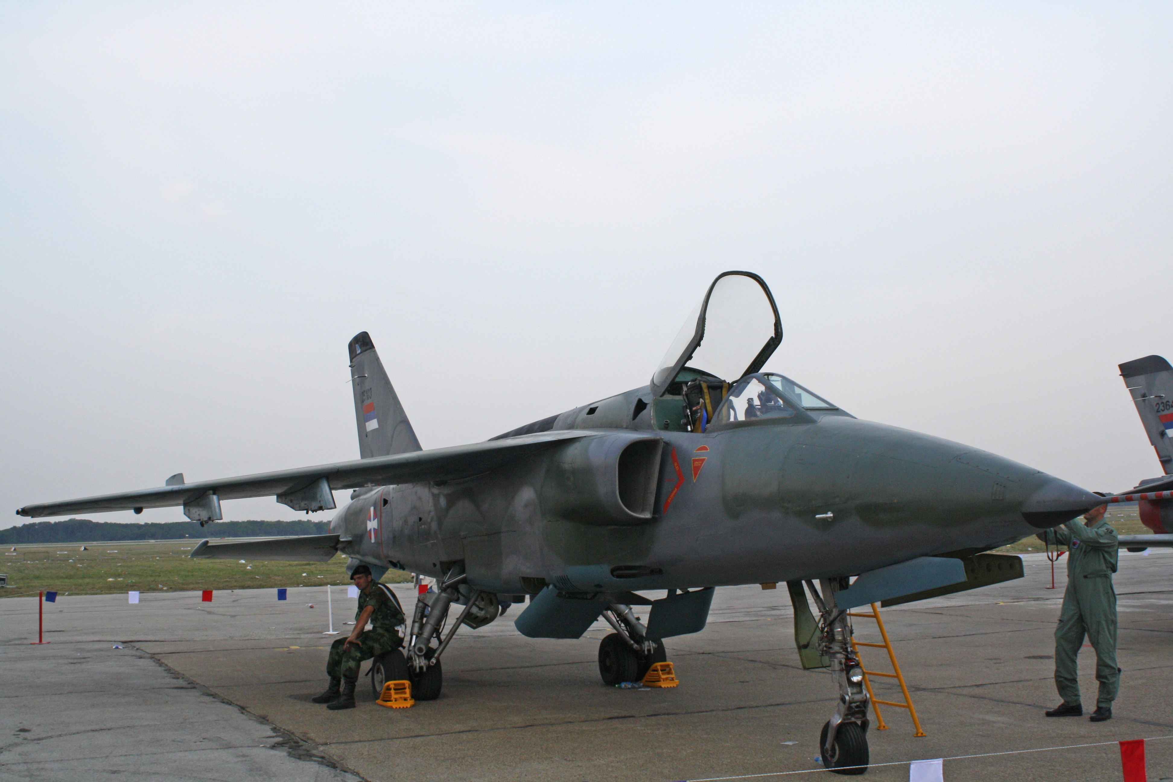 J-22 Orao attack aircraft No.25103 of 241. Fighter-Bomber Aviation Squadron, 98th Air Base of Serbian Air Force, at Batajnica airbase during the Batajnica 2009 airshow. Јуришни Авион Ј-22 Орао број 25103 из састава 241. ловачко-бомбардерске авијацијске ескадриле 98. Авио базе Ваздухопловства и ПВО Војске Србије на аеромитингу Батајница 2009.